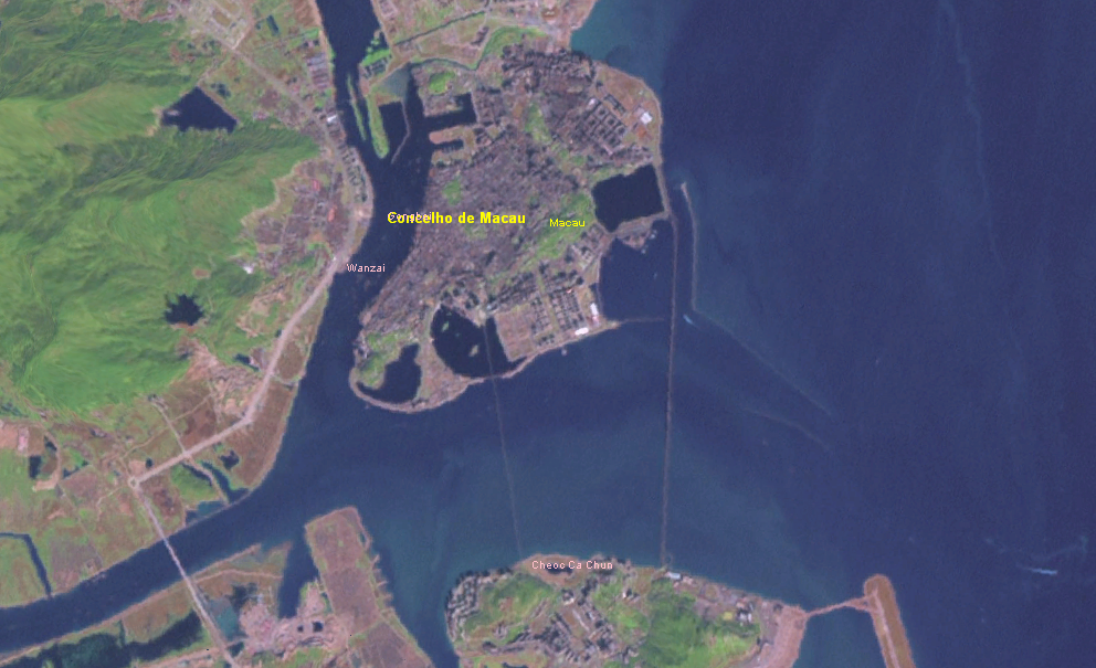 Geography of Macau. Satellite view.